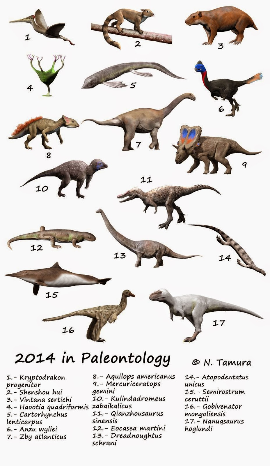 2014 in Paleontology A selection of species described in 2014.